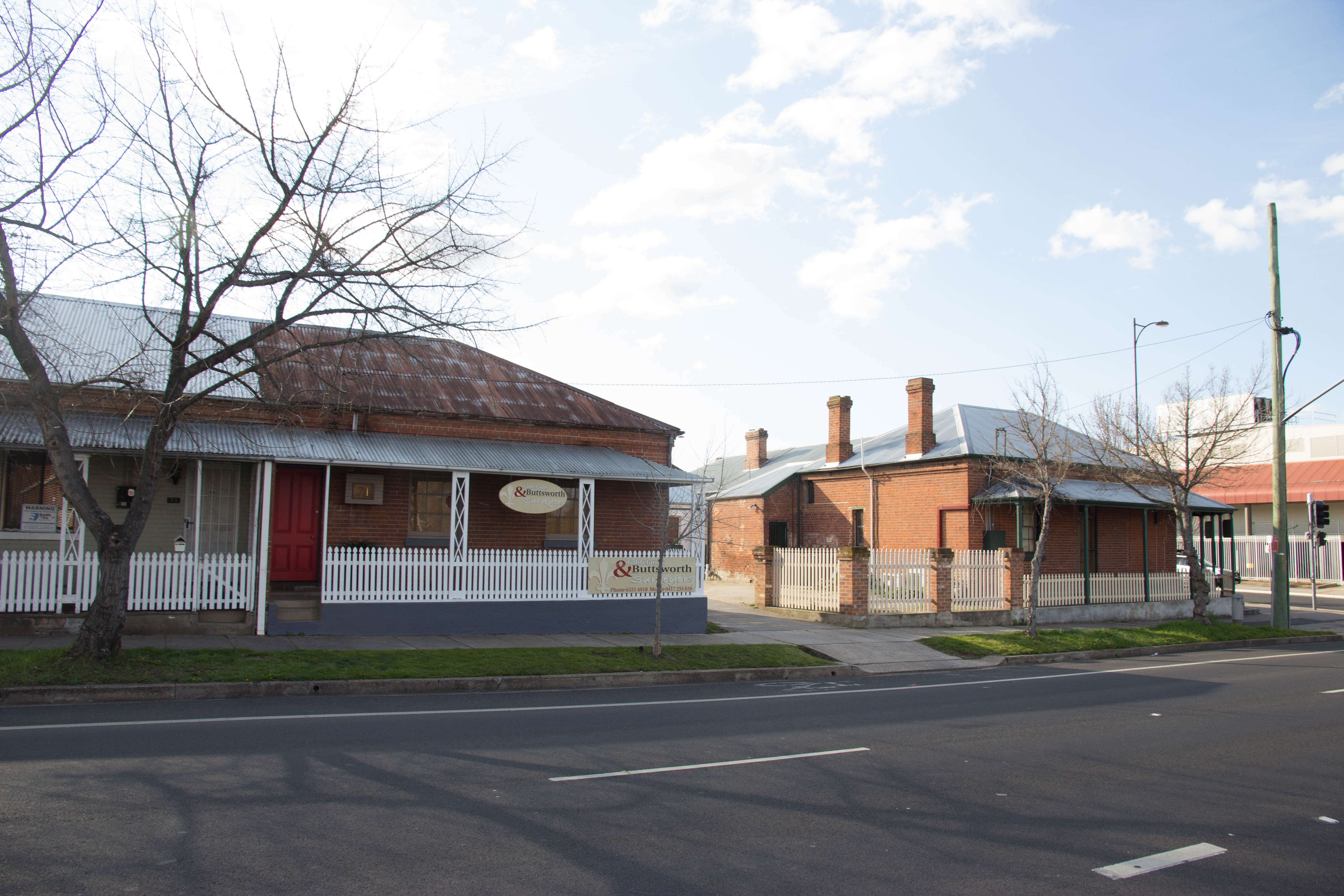 Federation architecture heritage-listed cottages at 67 (right) & 71 (left) Bentinck Street, Bathurst, New South Wales